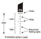 Simplified Short Approach Lighting System With Runway Alignment Indicator Lights (SSALR)